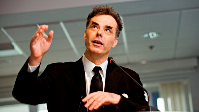 Professor Daniele Archibugi